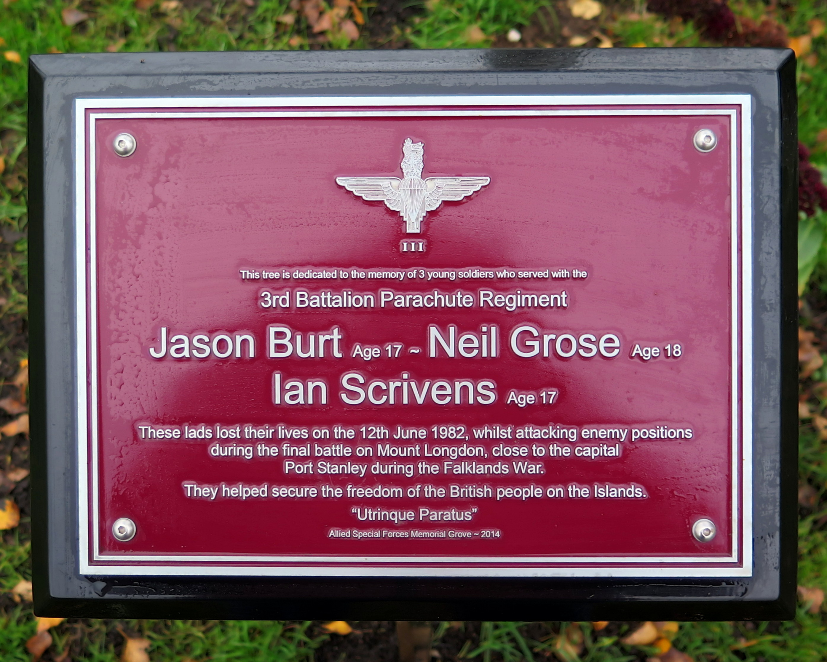 National Memorial Arboretum Falklands Memorial to Jason Burt, Neil Grose & Ian Scrivens